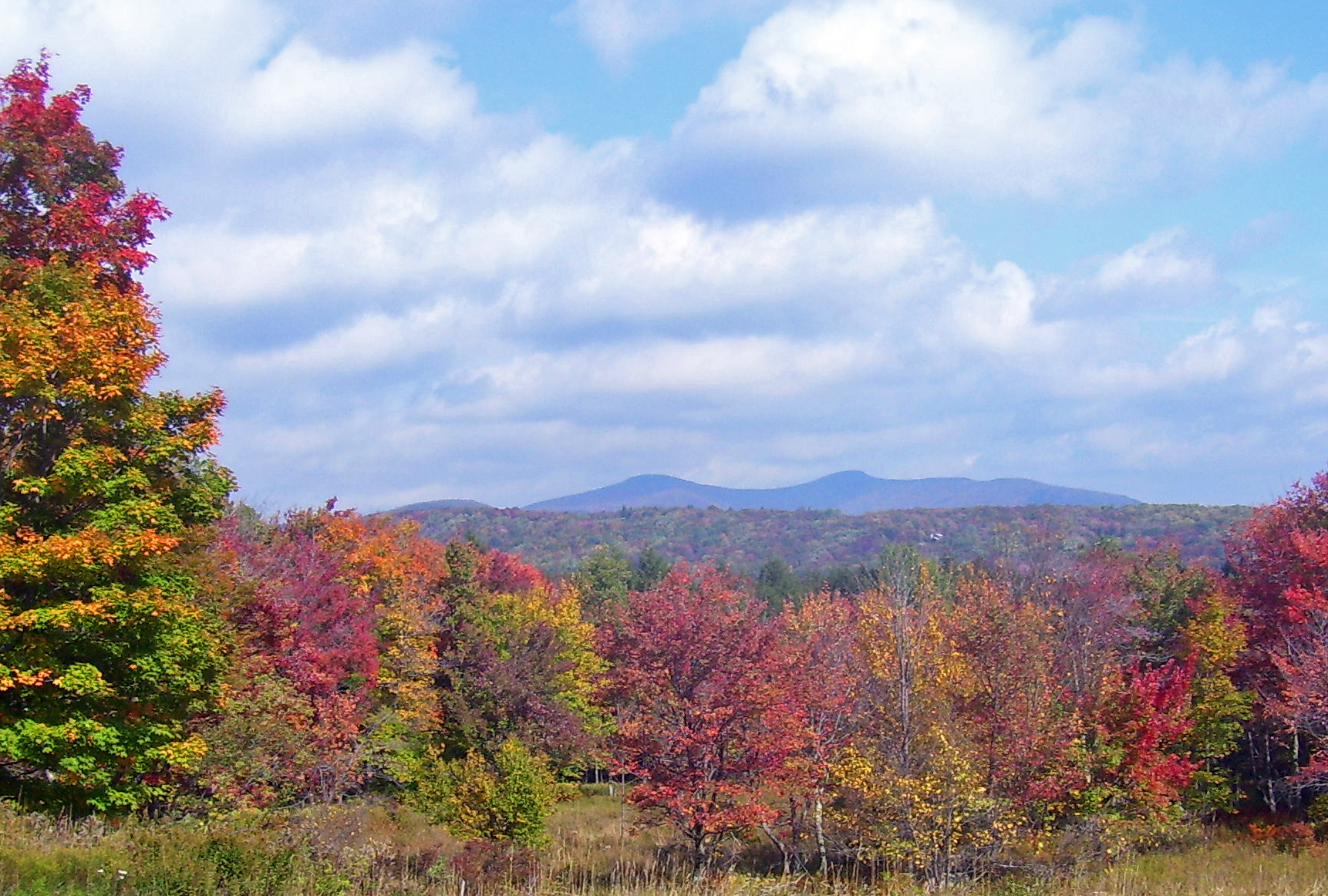 Peekamoose and Table mountains, southernmost of the Catskill High Peaks, seen from Red Hill Knolls Road in the town of Denning, NY, USA